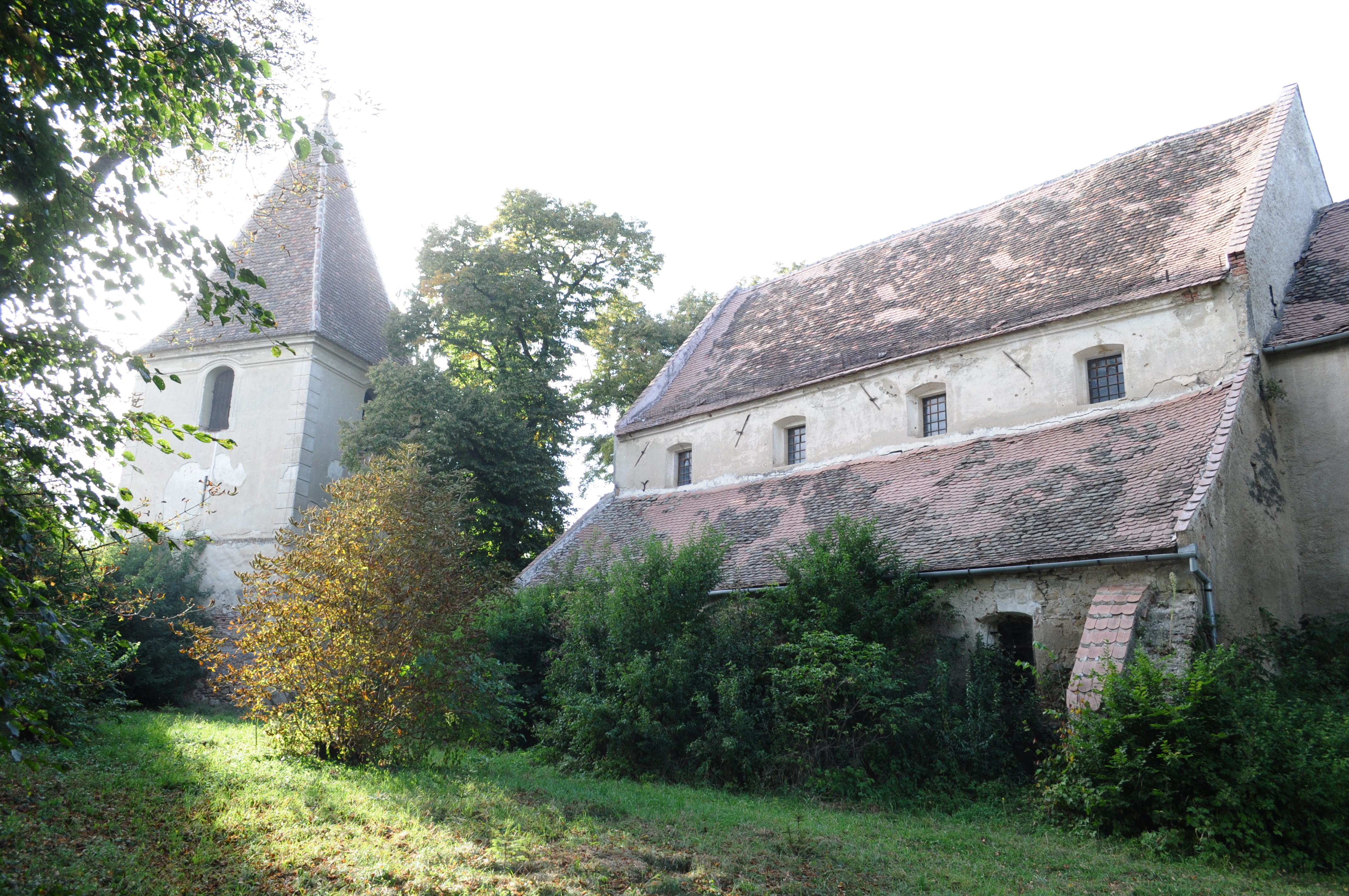 Saxon fortified church in Roșia, Sibiu countyRomână: Biserica evangheliocă fortificată din Roșia, județul Sibiu